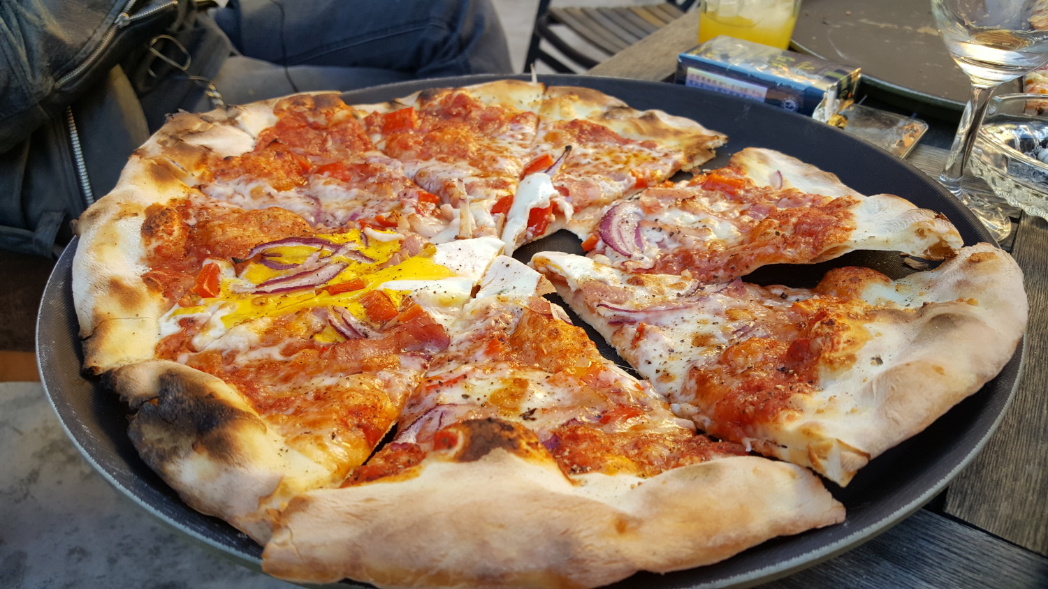 A vegetarian four seasons (quattro stagioni) pizza in Kunming, Yunnan, China.